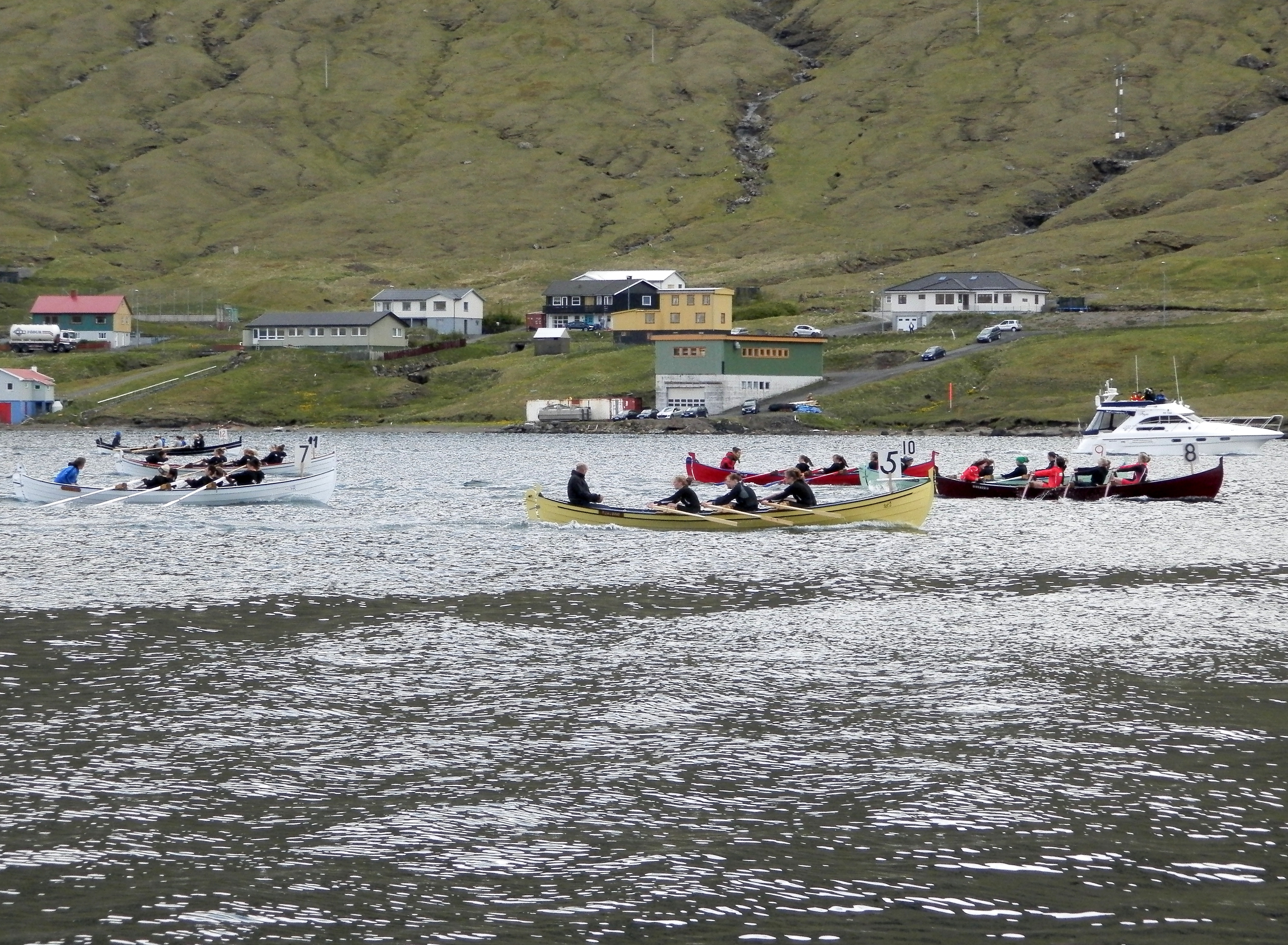 Rowing race for girls under 18 in the Faroe Islands on a festival called Sundalagsstevna, which was held in Kollafjørður in 2012. There are 7 rowing races in the summertime, the last one is held in Tórshavn on 28 July. The winner of this race was Hvassi (dark red boat), number two was Erla Kongsdóttir (light green boat), number three was Blikur (the red boat). Føroyskt: Kappróður 5-mannafør gentur á Sundalagsstevnuni 2012 í Kollafirði. Vinnari gjørdist Hvassi, Erla Kongsdóttir nummar tvey, Blikur nummar trý og síðan komu Tjaldrið, Sílið, Fípan Fagra, Royndin Fríða og Ørnin.